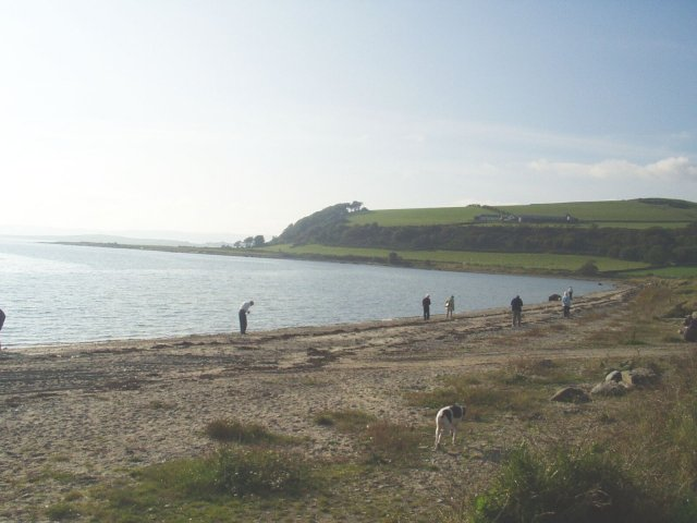 Ettrick Bay